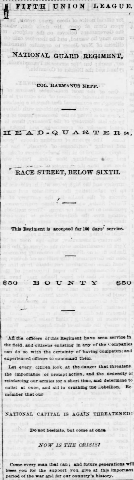 A recruiting advertisement for the 5th Union League Regiment (196th Pennsylvania Volunteer Infantry)